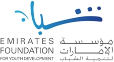 This is a logo of Emirates Foundation in UAE